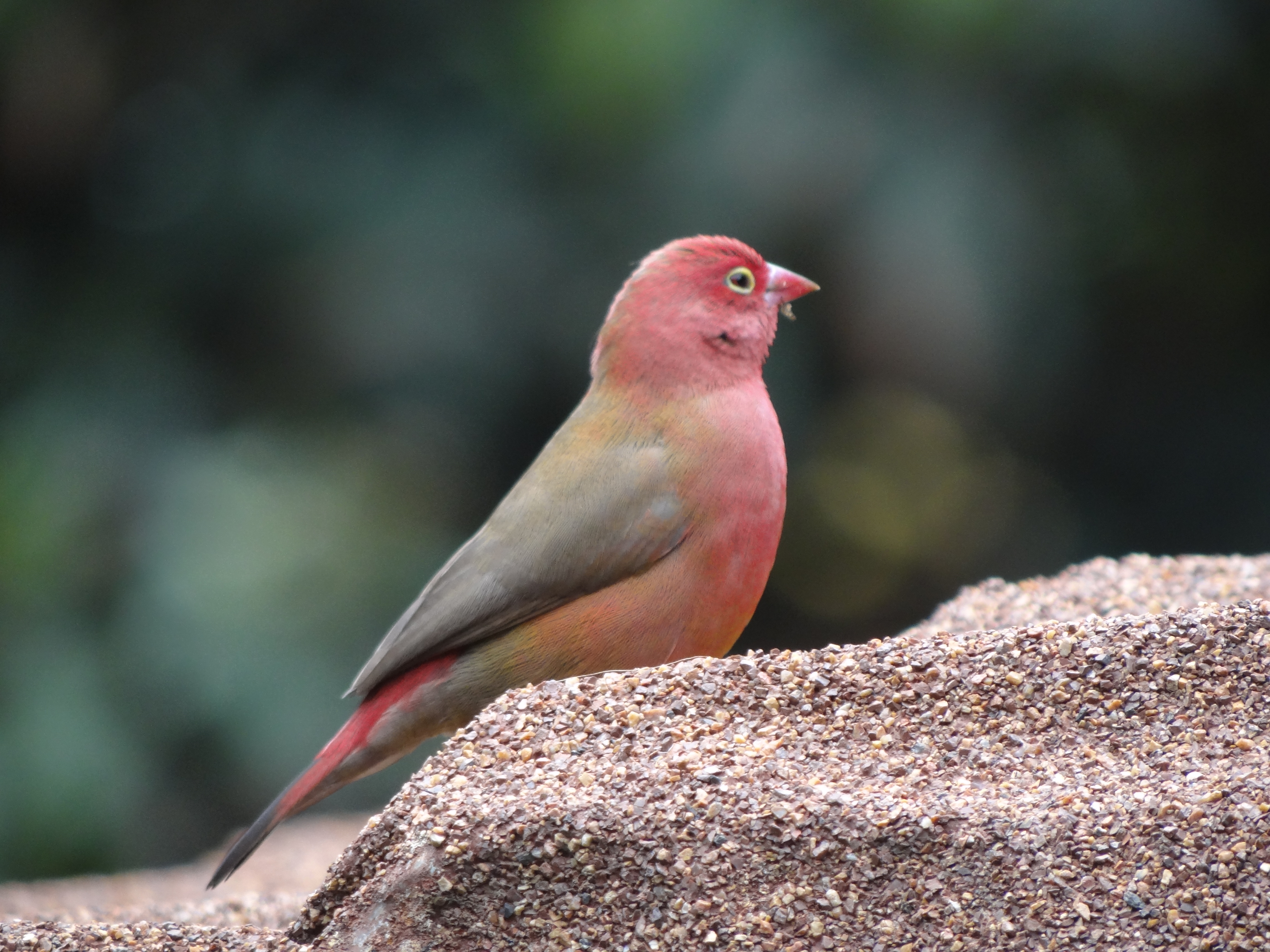 A male Red-Billed Firefinch in Babogaya, Ethiopia.